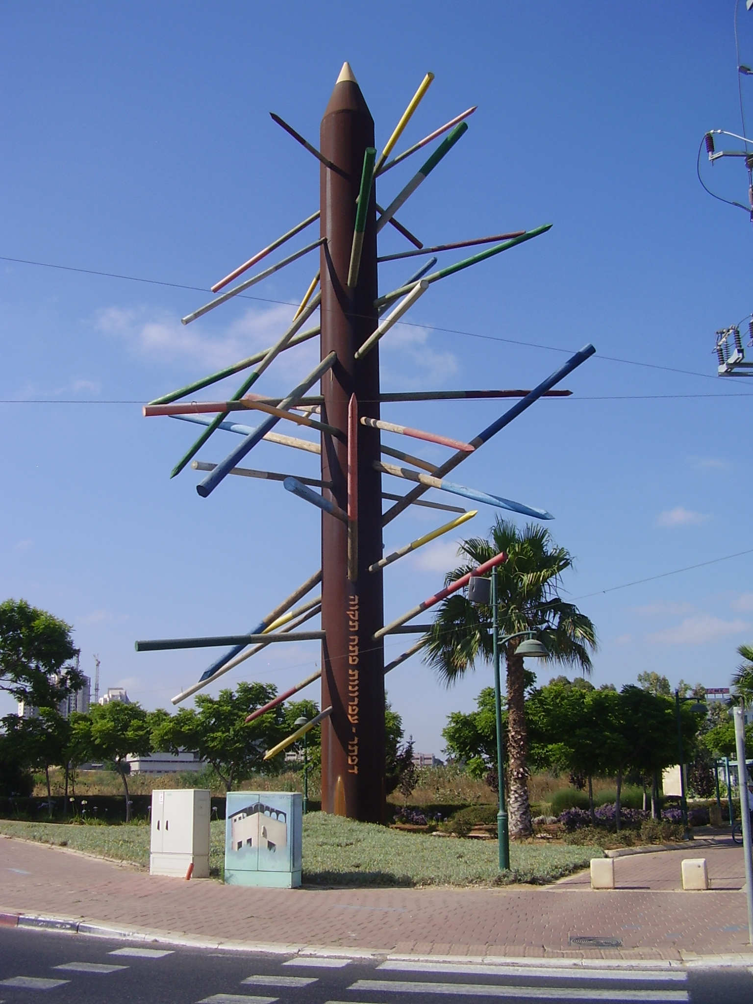 Pencils sculpture in Petah Tikva